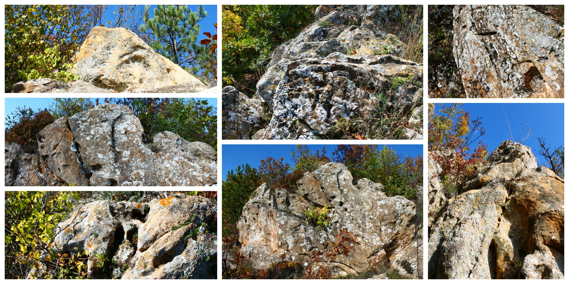 Solar_sanctuary_Kula_Garlo_BG